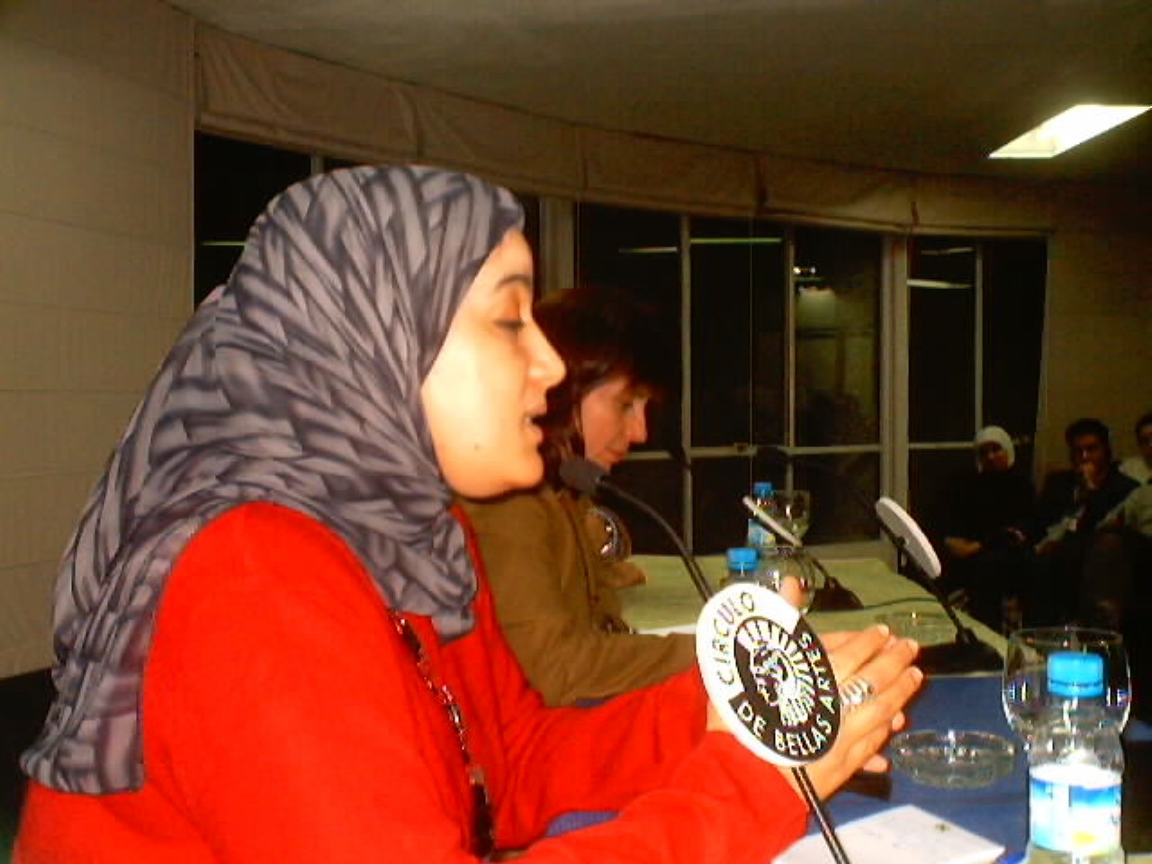 Nadia Yassin